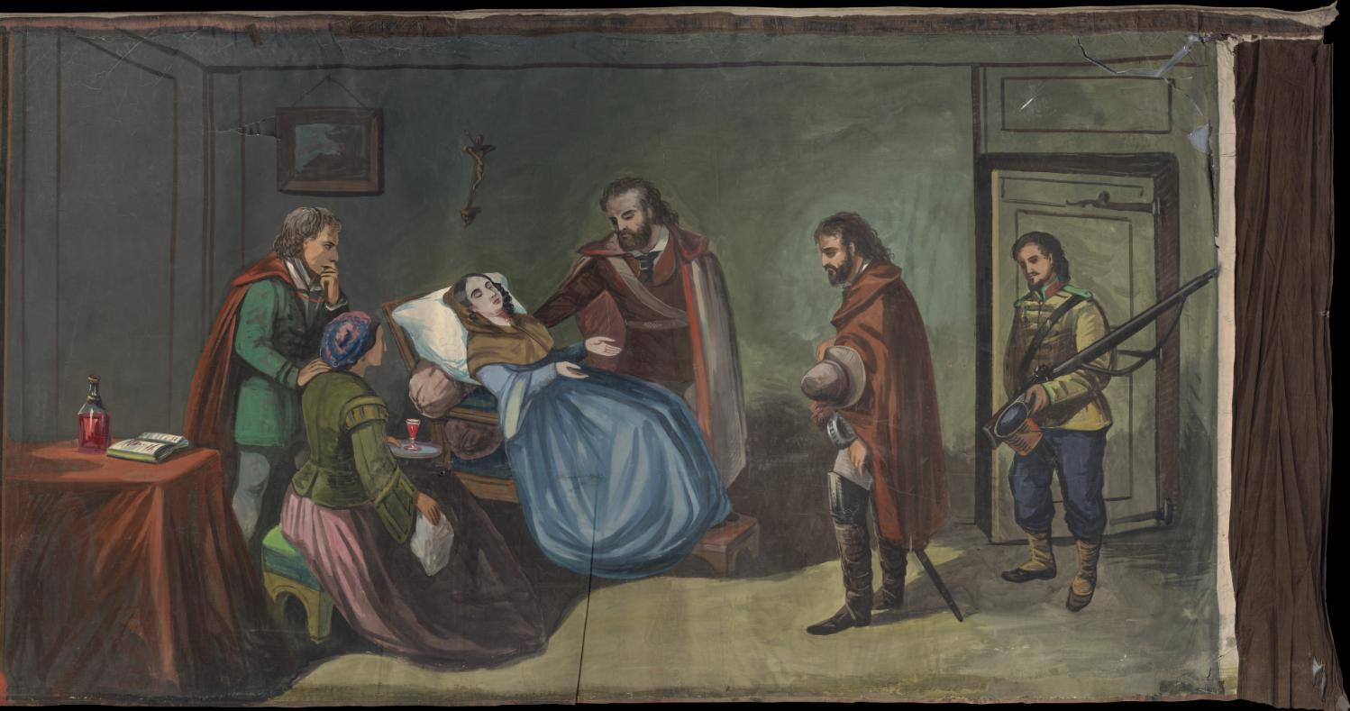 Publication/Creation: Nottingham: 1860 Creators and Contributors: Story, J. J. (creator) Description: Physical Description: 1 scene; 147.2 x 279.9 cm. reformatted digital Abstract: Anita dies in a farm house not far from Ravenna surrounded by Garibaldi, some of his comrades, and those who have granted her asylum as the Austrians seek them out. Call Number: DG552.8.G2 S86x 1860 (Annex Hay Call No.) General notes: Scene isolated from a multi scene panorama